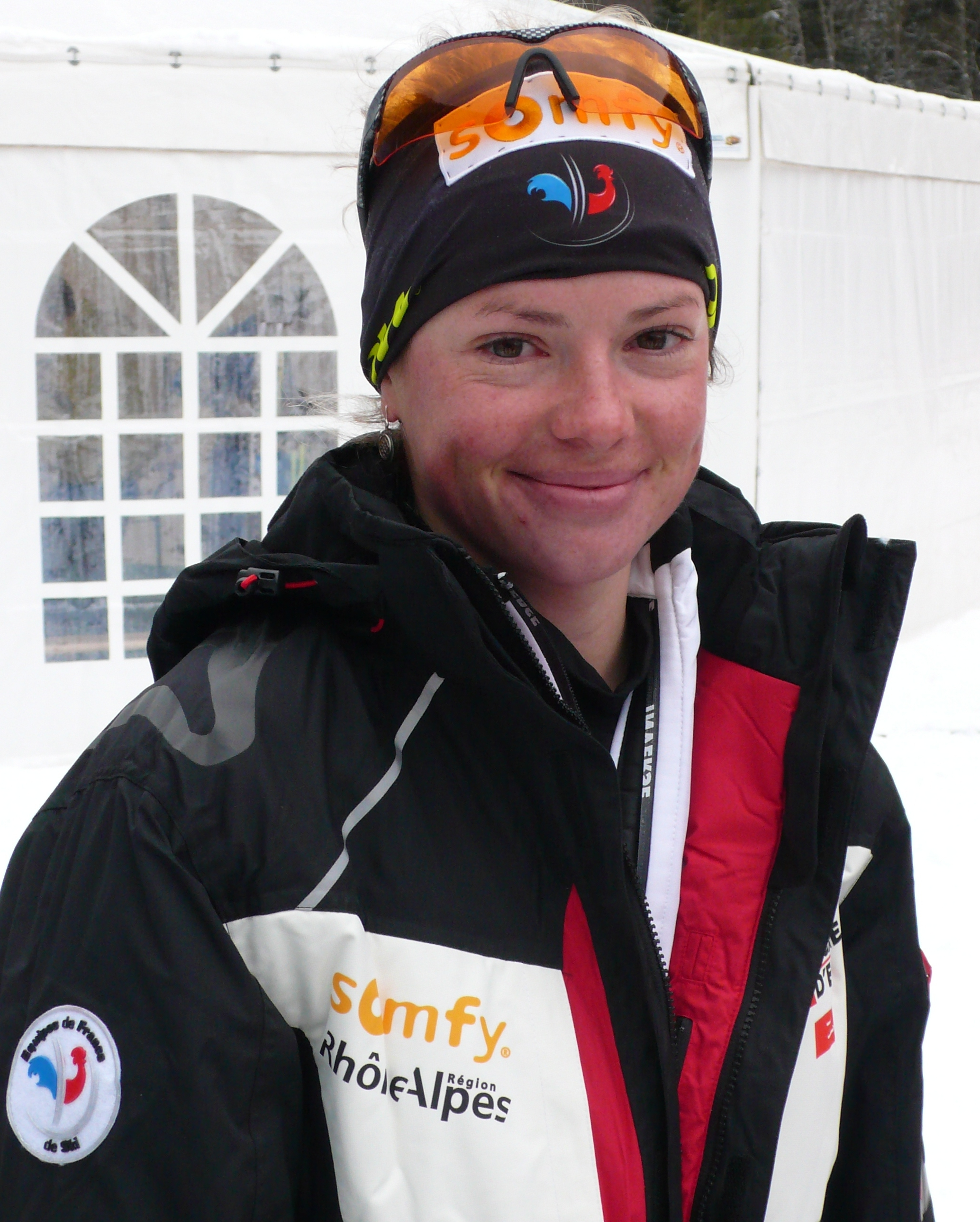 Marie Dorin, during a national race of Biathlon in Les Contamines-Montjoie.